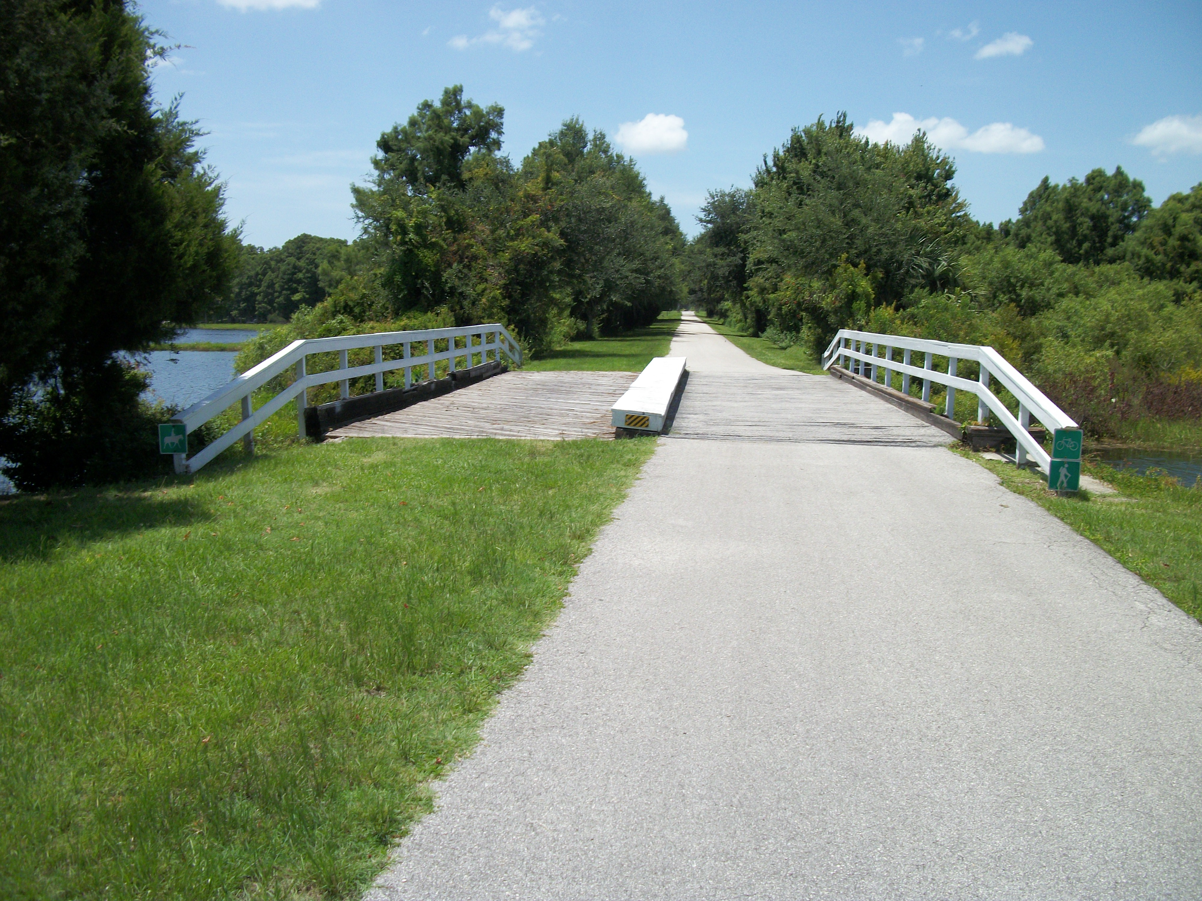 The Withlacoochee State Trail as it approaches the former railroad bridge over a portion of Henderson Lake in Inverness, Florida. That grass portion on the left is for horses, and the paved section is naturally for bicycles and pedestrians.